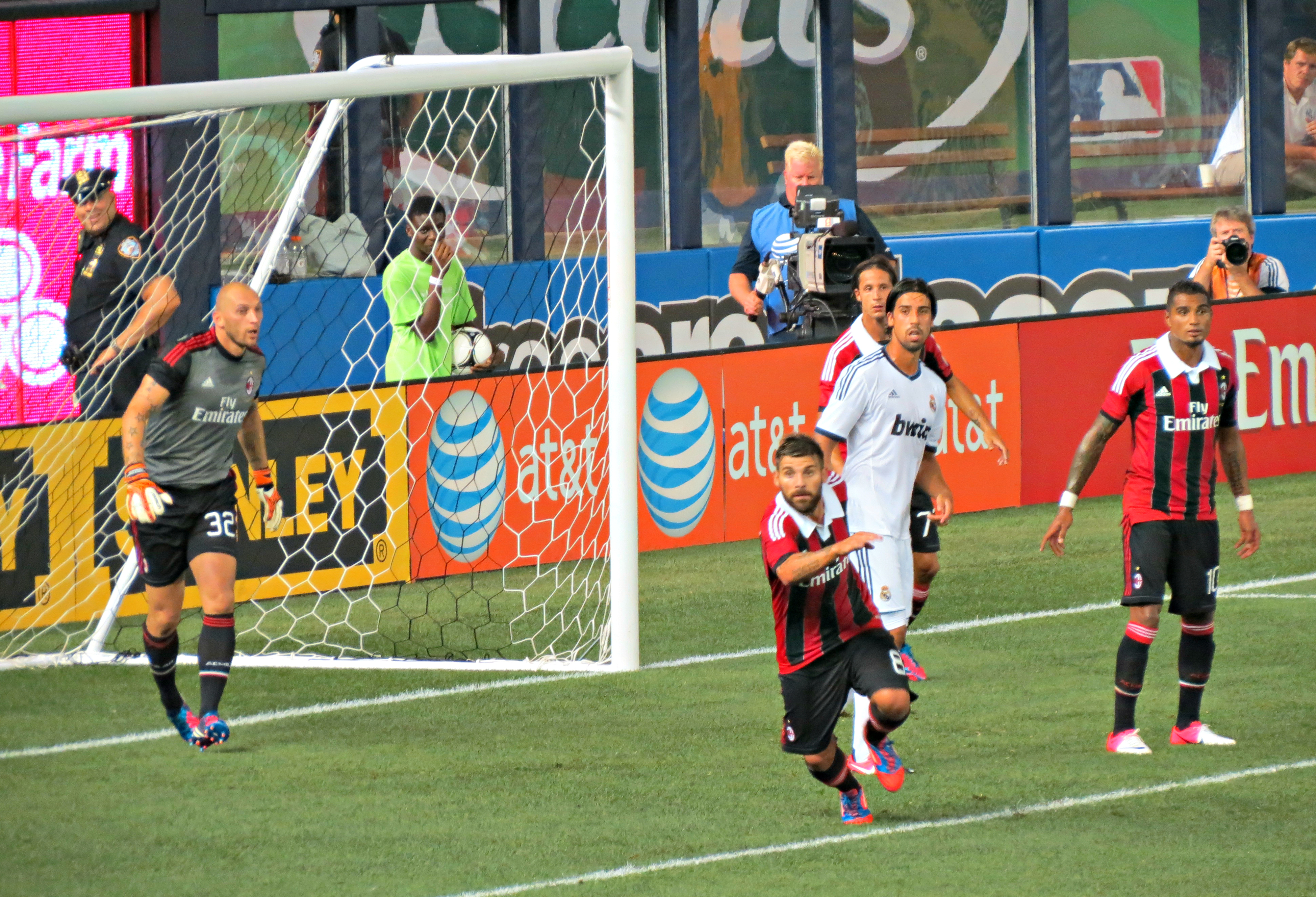 Antonio Nocerino of Milan defends against Real Madrid.